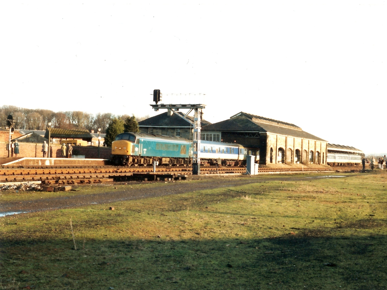 Malton railway station